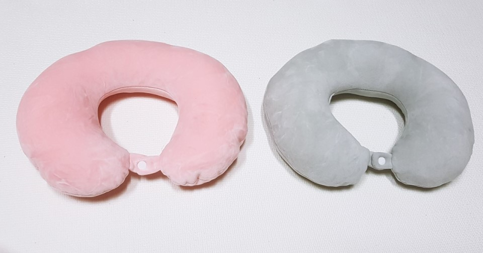 Fgxguy